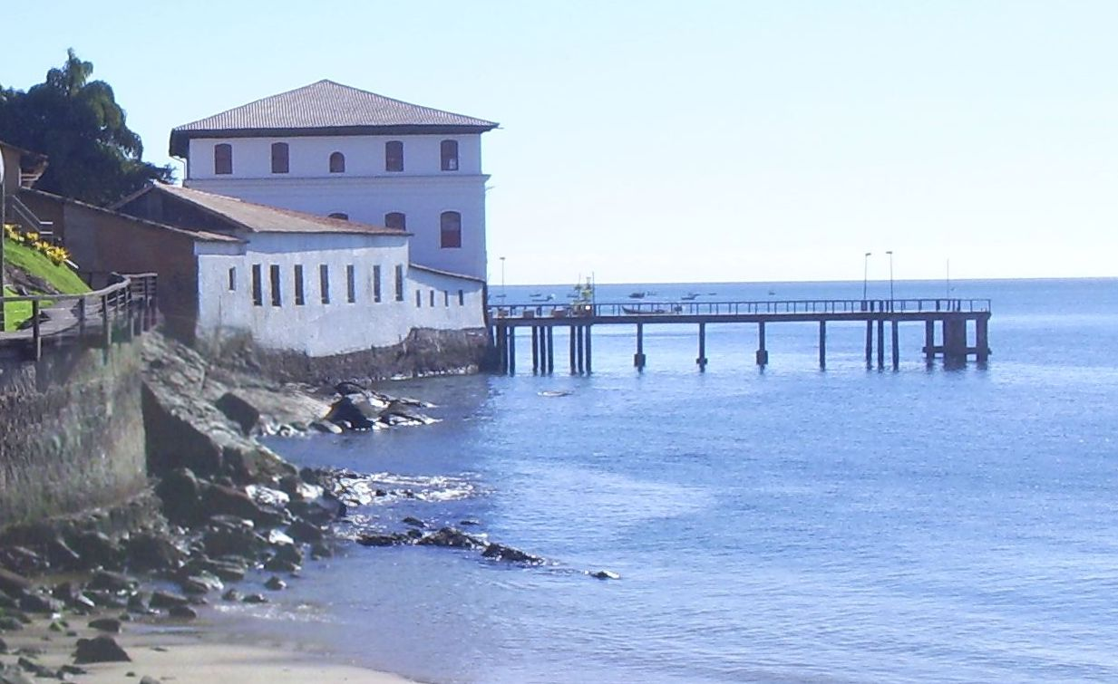 Solar do Unhão, Salvador, Bahia, Brazil